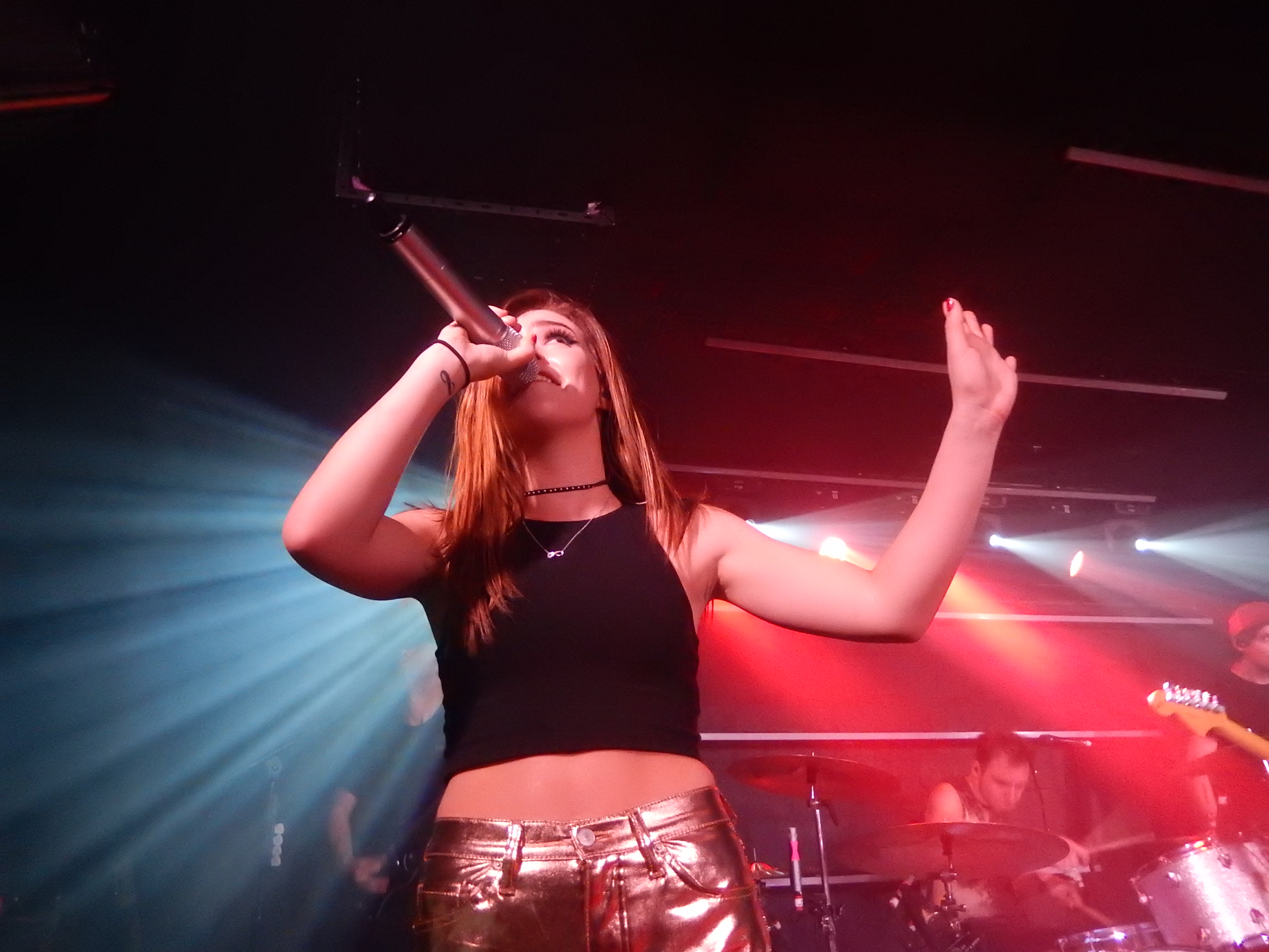 Against The Current, Borderline, London